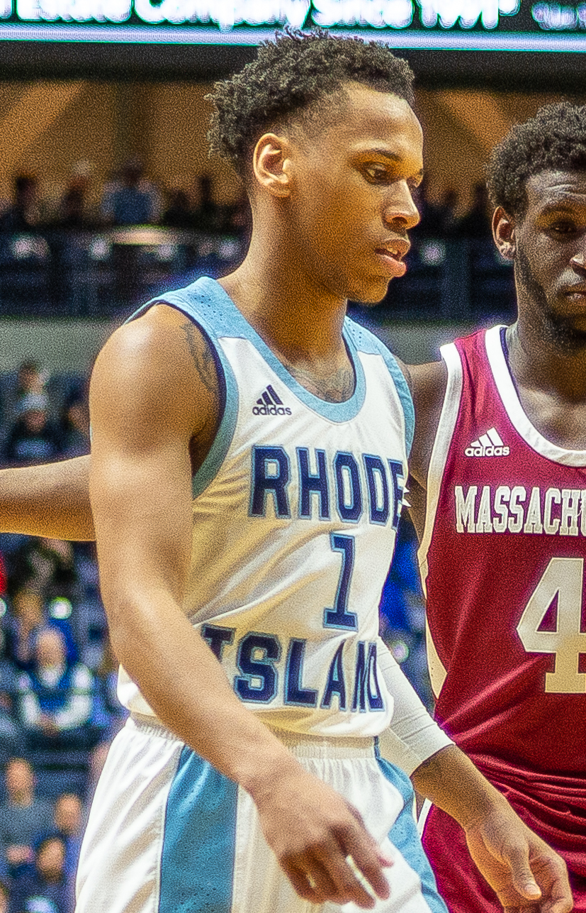 The University of Massachusetts men's basketball team lost to the University of Rhode Island at the Ryan Center on Feb. 4. Photo by Parker Peters